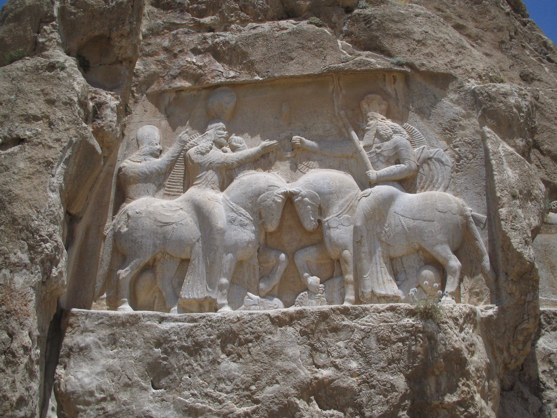 Bas relief at Nagsh-e-rostam showing the investiture of Ardashir I, Province du Fars, Iran.